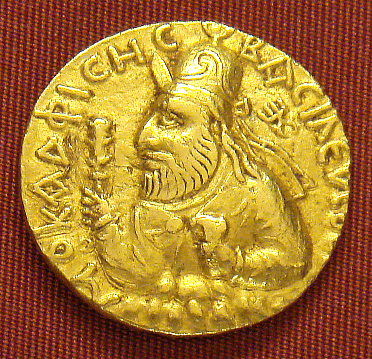 Coin of Vima Kadphises. British Museum. Personal 2006.